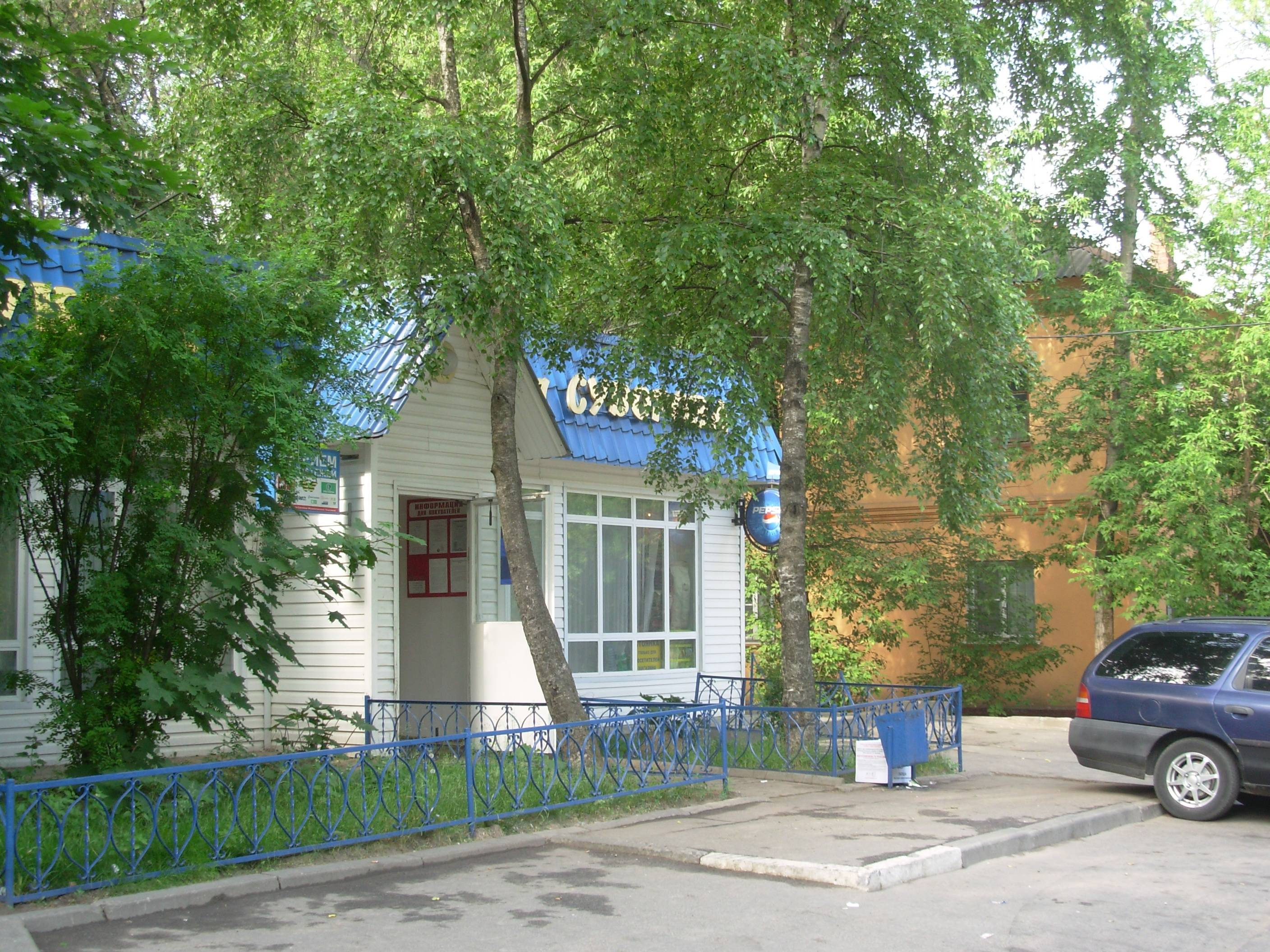 street